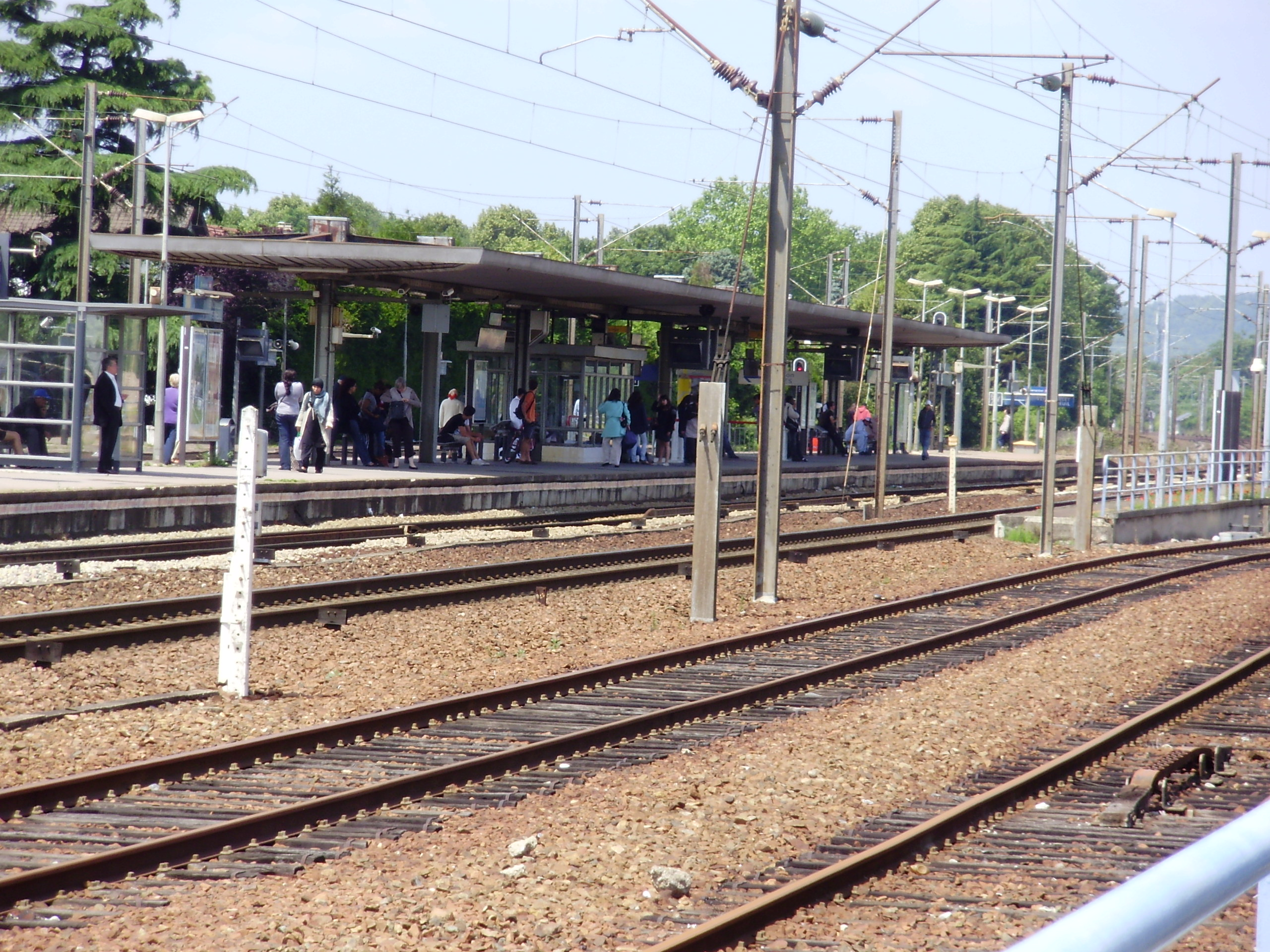 Vernouillet - Verneuil station, in Verneuil-sur-Seine, Yvelines, France (view of the central platform from the NE parking)